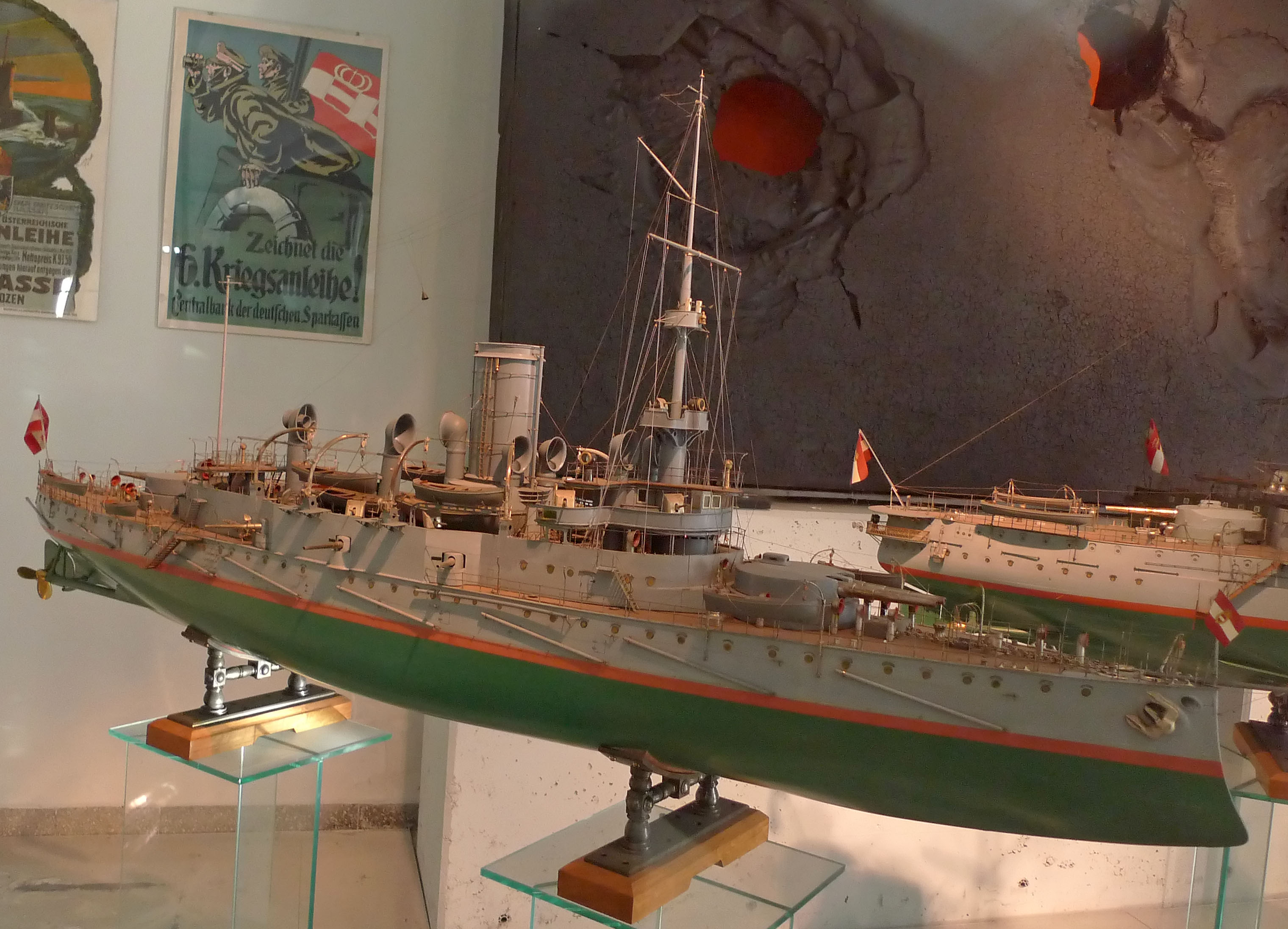 Austro-Hungarian Monarch-class battleship battleship SMS Budapest (1896). 1:50 scale model at the Heeresgeschichtliches Museum Wien.